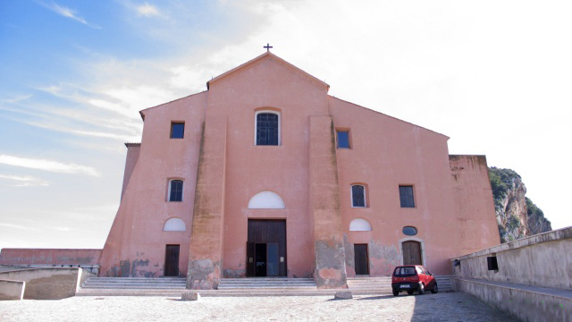 Picture of the sanctuary of the Madonna of Granato